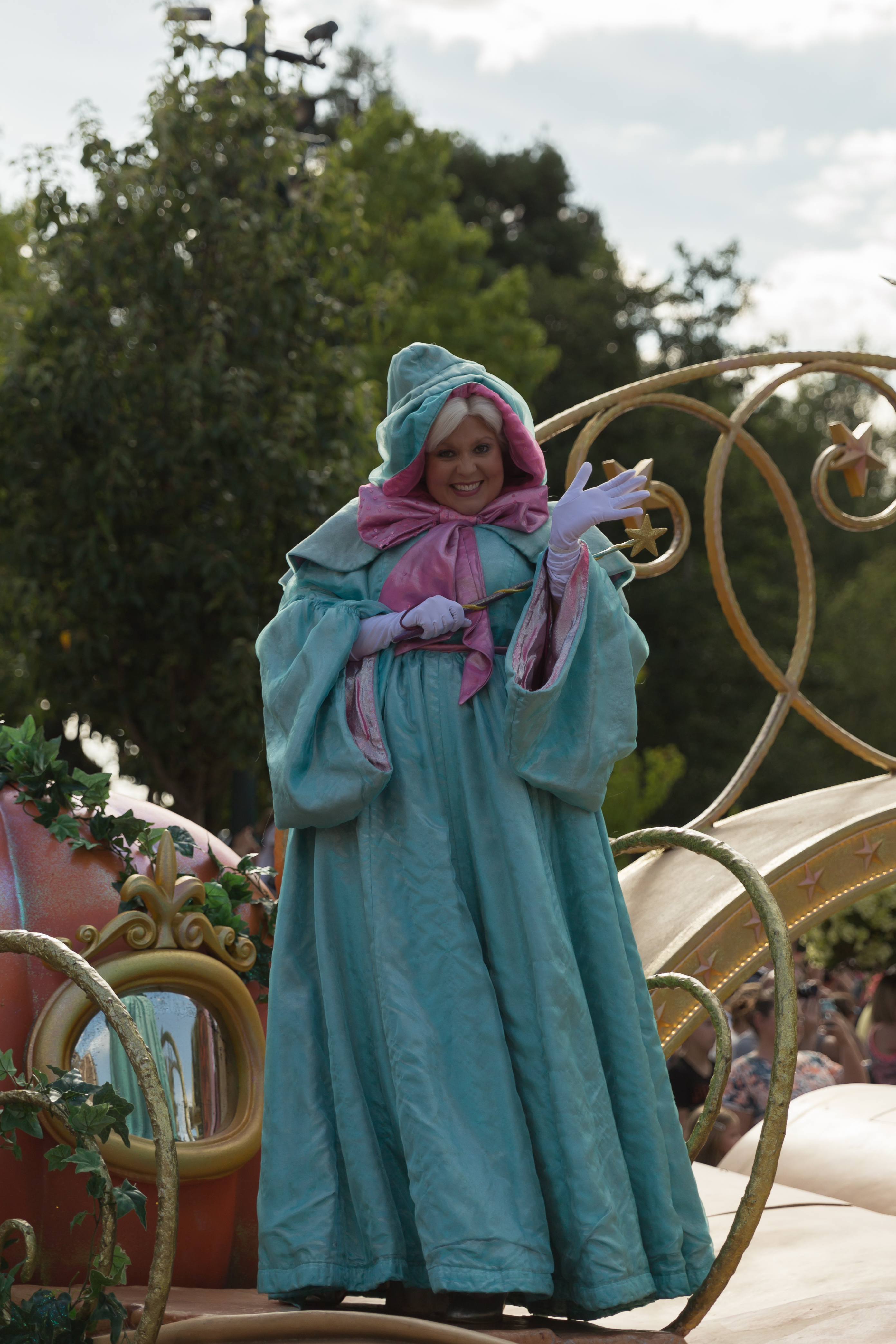 Fairy godmother Cinderella at the Disney Magic On Parade at Disneyland Paris.